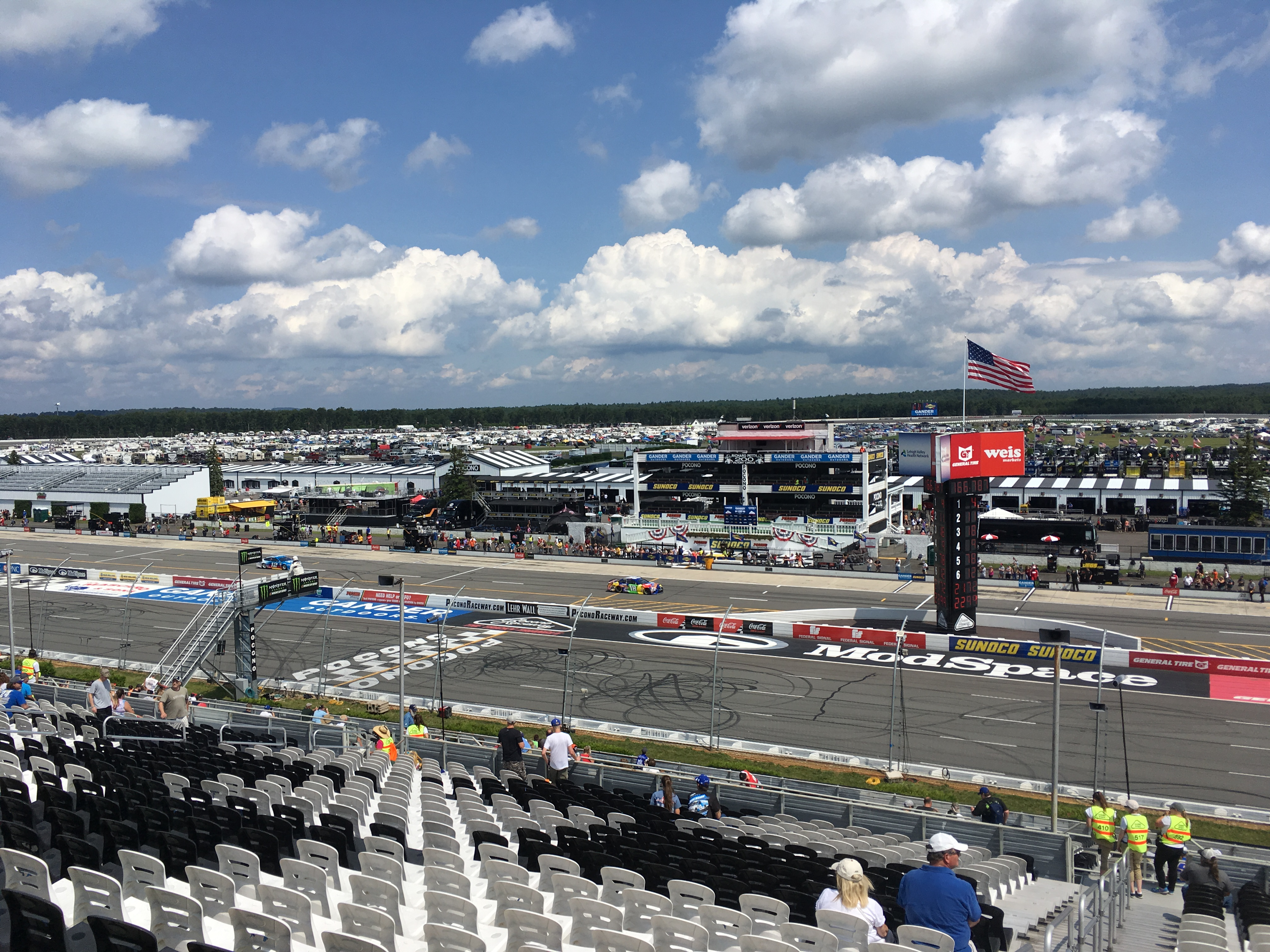 Final practice for the 2018 Gander Outdoors 400 at Pocono Raceway viewed from the frontstretch. Kyle Busch (#18) and Ryan Blaney (#12) drive by on pit road.